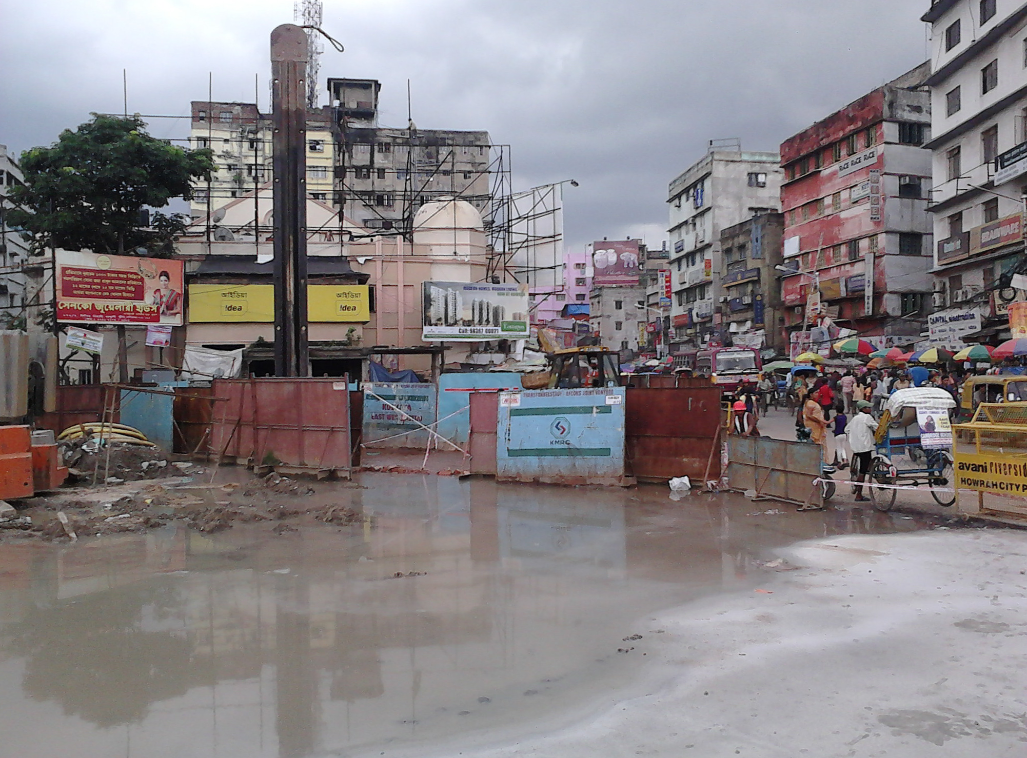 The East-West corridor of the Kolkata Metro Railway (Line 2) is a rapid transit system under construction which will serve Salt Lake City, Kolkata and Howrah. It connects the IT township of Salt Lake and Howrah, crossing the Hooghly River. It would consist of 12 stations from Salt Lake Sector V in the east to Howrah Maidan in the west, of which 6 would be elevated and 6 would be underground, with a total distance of 14.67 km. The East-West Metro would be the first metro in India that would have an underwater stretch, under the Hooghly River.